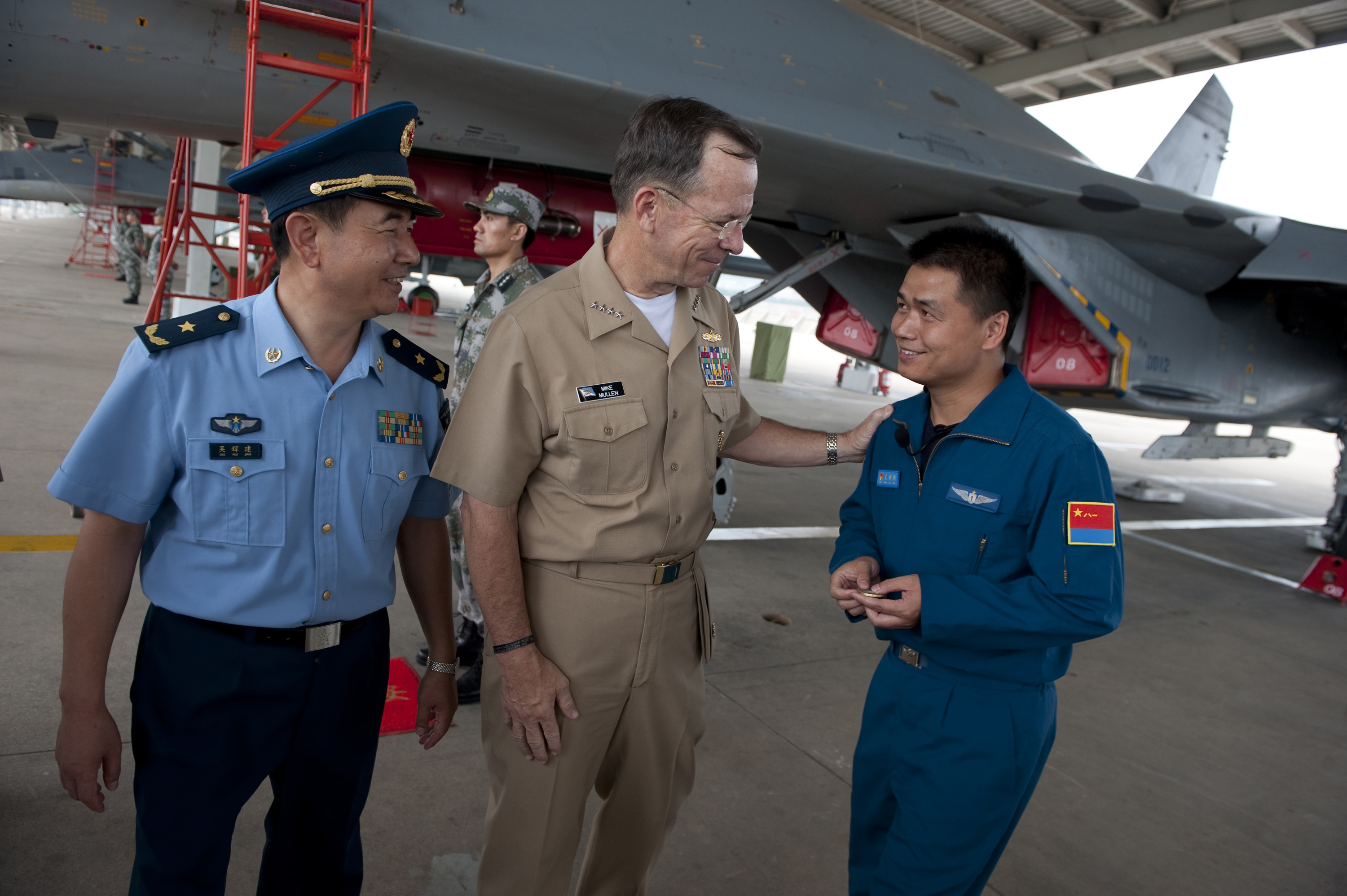 Chairman of the Joint Chiefs of Staff Adm. Mike Mullen thanks a Chinese People's Liberation Army Air Force (PLAAF) airman after a tour of a Sukhoi Su-27 Fighter at the PLAAF 19th Air Division in Shandong, China, on July 12, 2011. Mullen is on a three-day trip to the country meeting with counterparts and Chinese leaders.